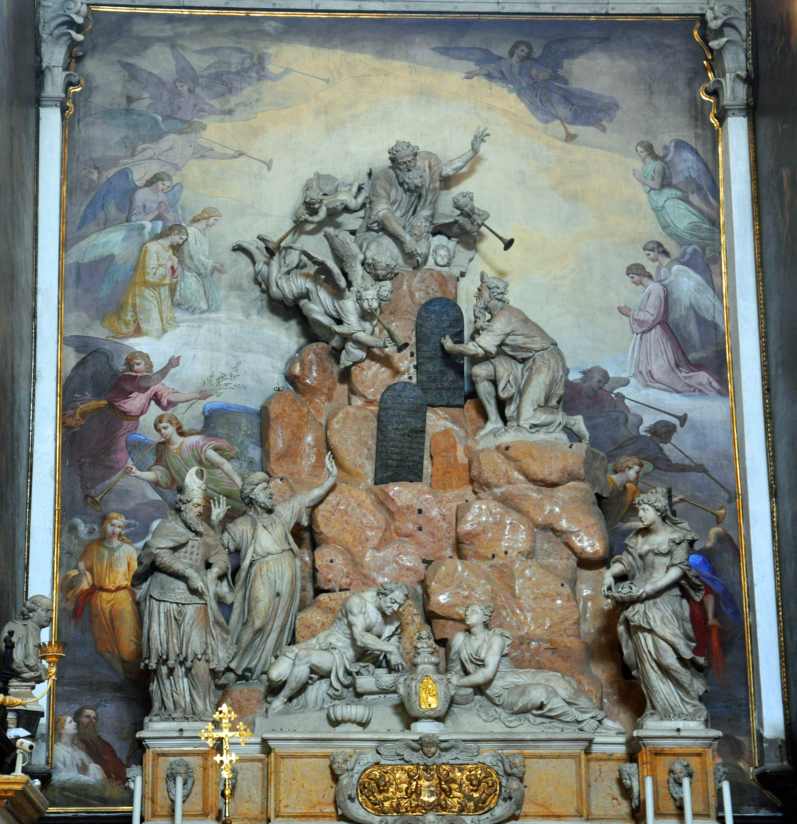 Church of San Moise, Venice, Italy. In the upper half of the mountain Moses receives the two stone tablets from God the Father. Below, Aaron and (presumably) Miriam stand to the left and right of the mountain. Aaron can be identified by his breastplate and horned crown.